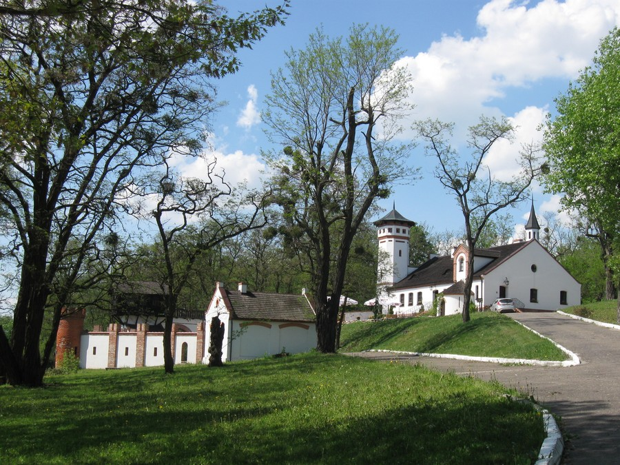 Pavillon de chasse in Bugaj, Poland